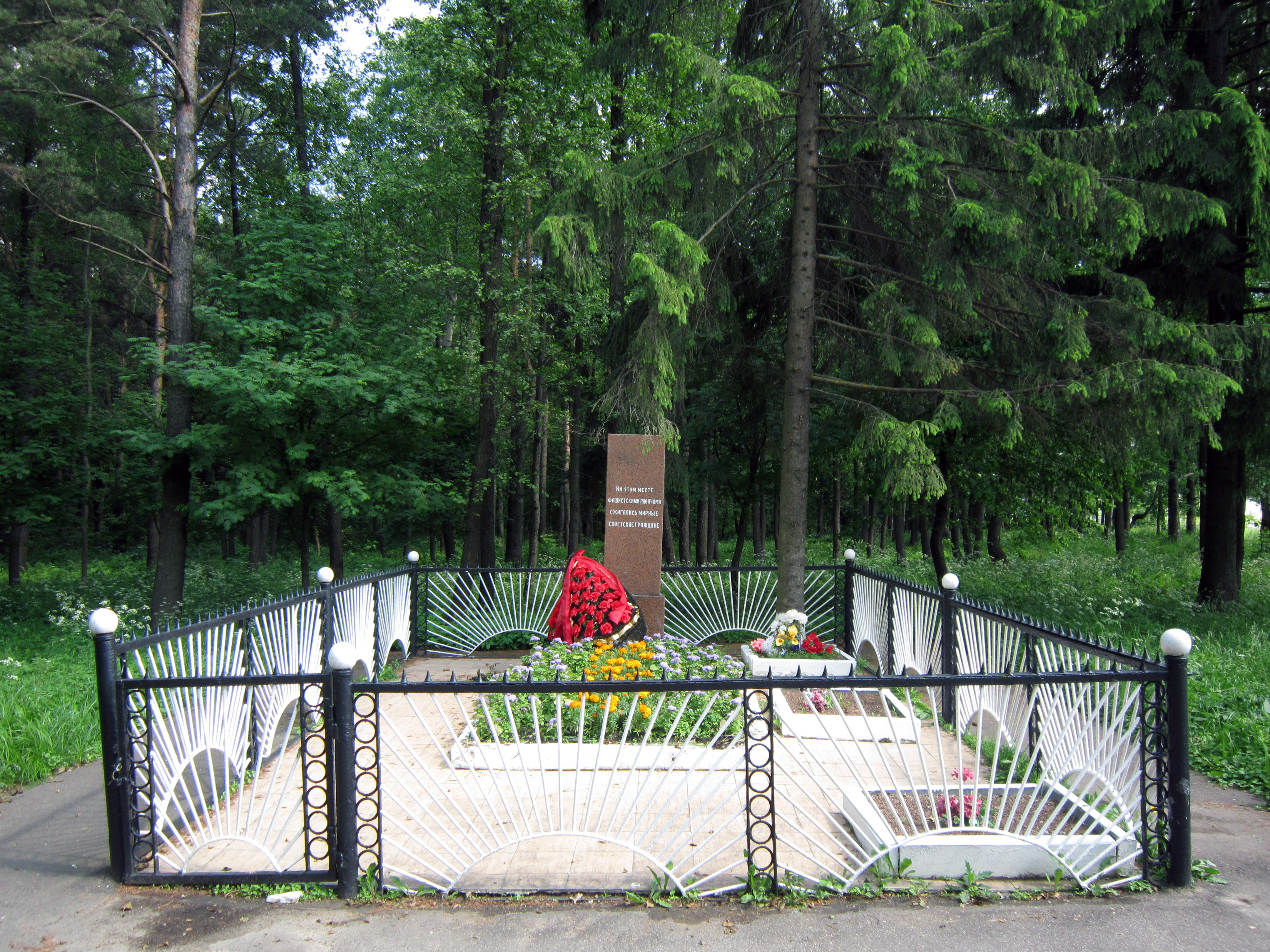 Memorial sign on a place of Maly Trastsianets extermination camp (Minsk, Belarus). Inscription (literal translation): «On this place fascist torturers burned peaceful Soviet people»